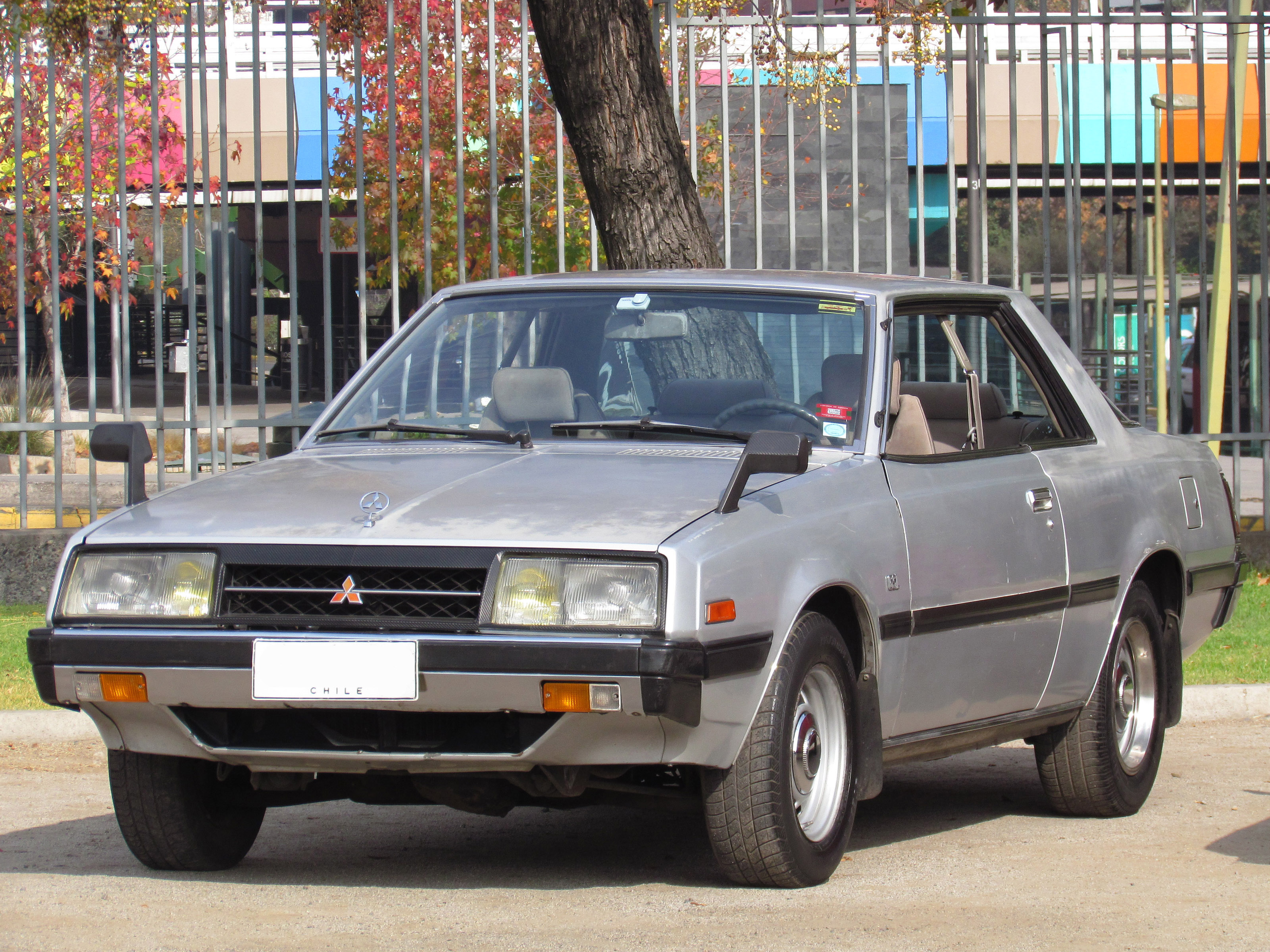 Mitsubishi Sapporo 2000 GSL 1982